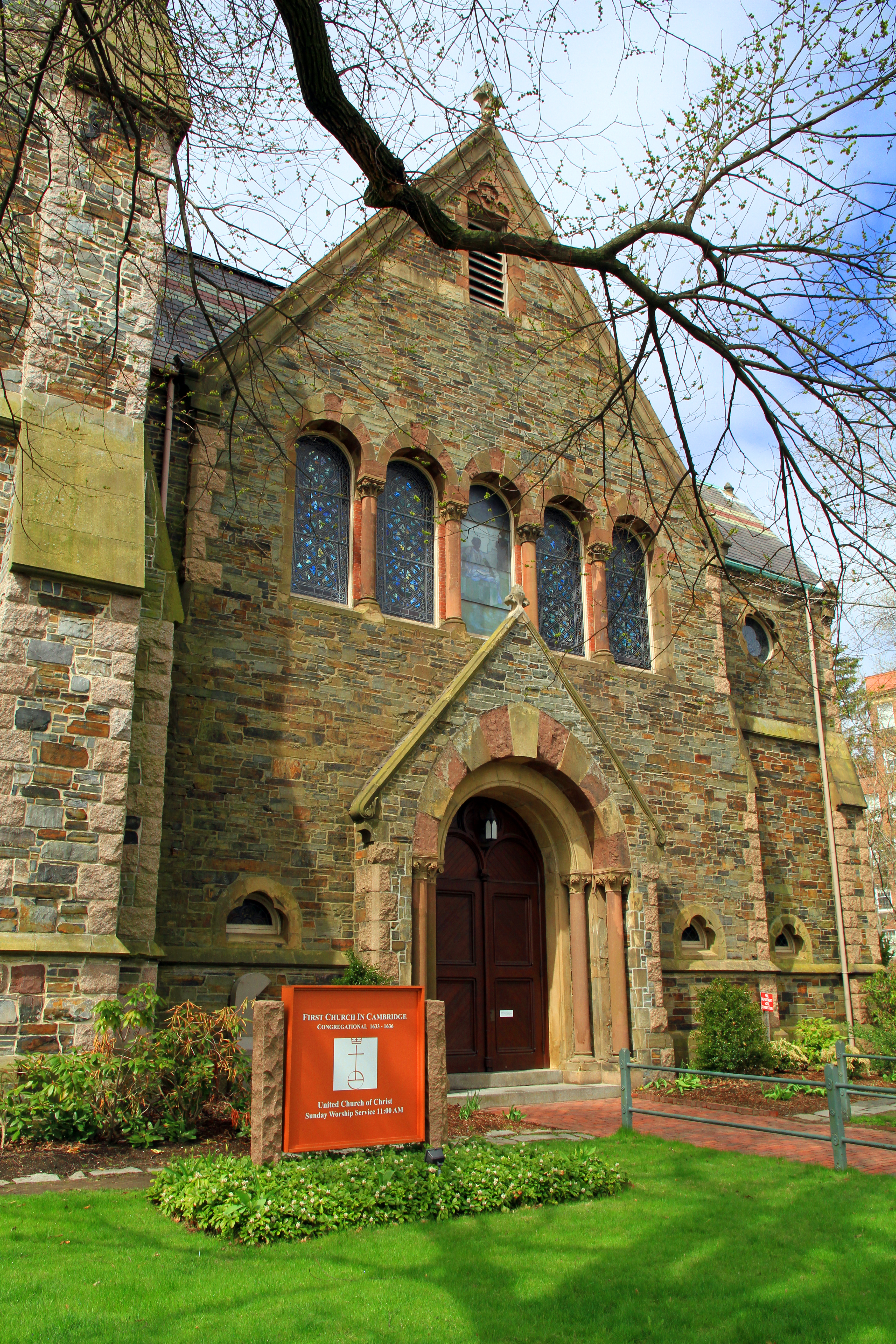 Boston United Church of Christ